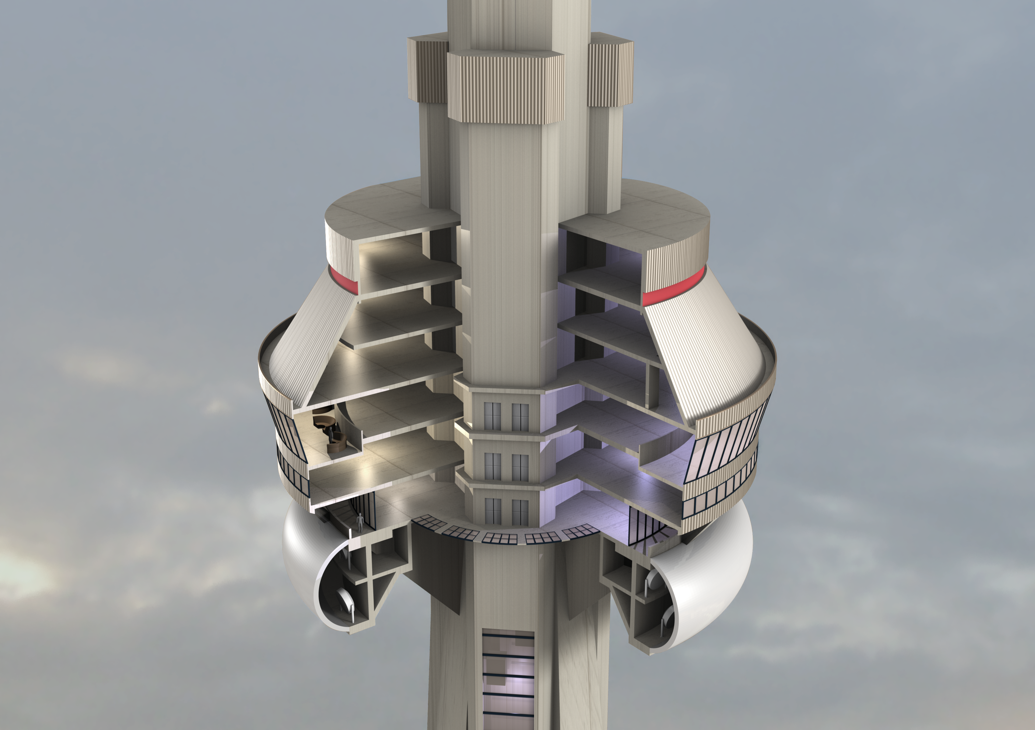 Model from the Main Pod of the CN Tower. Modeled after rough construction plans and photographies. Rendered with Blender.